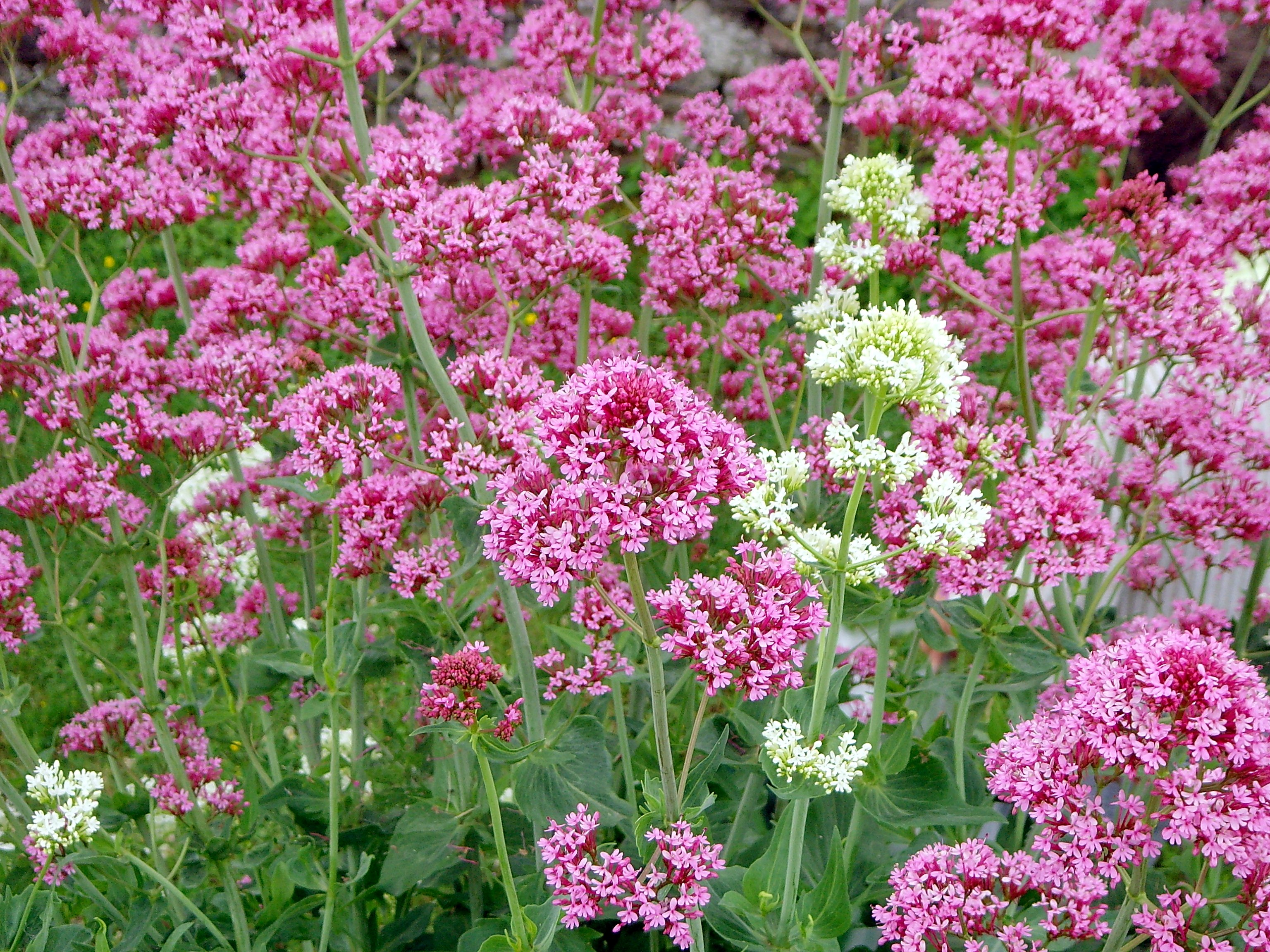 Centranthus ruber. Photo taken in Labussière-sur-Ouche, Côte-d'Or (France)